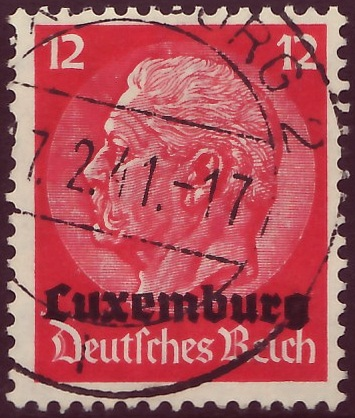 Stamp of Germany for Luxembourg; 1940; Hindenburg-series from 1933/36 with singlie-line, black overprint in Gothic letters "Luxemburg" Stamp: German occupation issues 1939/45 - Luxembourg; Michel-No. 7 (= Michel No. 519 from 1934 with overprint "Luxemburg") Color: bright-red (middle-red) to red Nominal value: 12 (Pfennig) Watermark: Germany No. 4 (horizontal wave lines, narrow waves) Postage validity: from 1 October 1940 until 31 December 1941 date QS:P,+1940-00-00T00:00:00Z/8,P580,+1940-10-01T00:00:00Z/11,P582,+1941-12-31T00:00:00Z/11